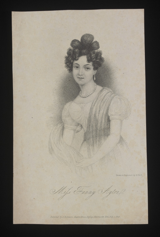 S.1261-2012 Print Print portraying Fanny Ayton. Drawn and engraved by B. Holl, published in London by S. Robinson on 1st July 1828. Harry Beard Collection Benjamin Holl (1808-1884) G. & S. Robinson London 1st July 1828 Printed ink on paper.